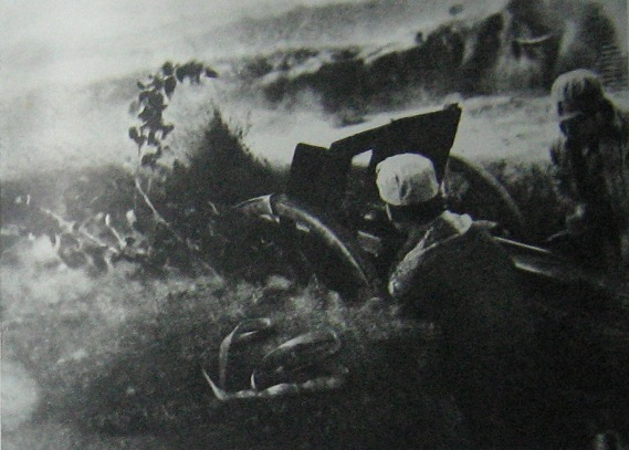 Communist troops in the Battle of Siping.国共内战中东北战场四平战役中共产党军队阵地。